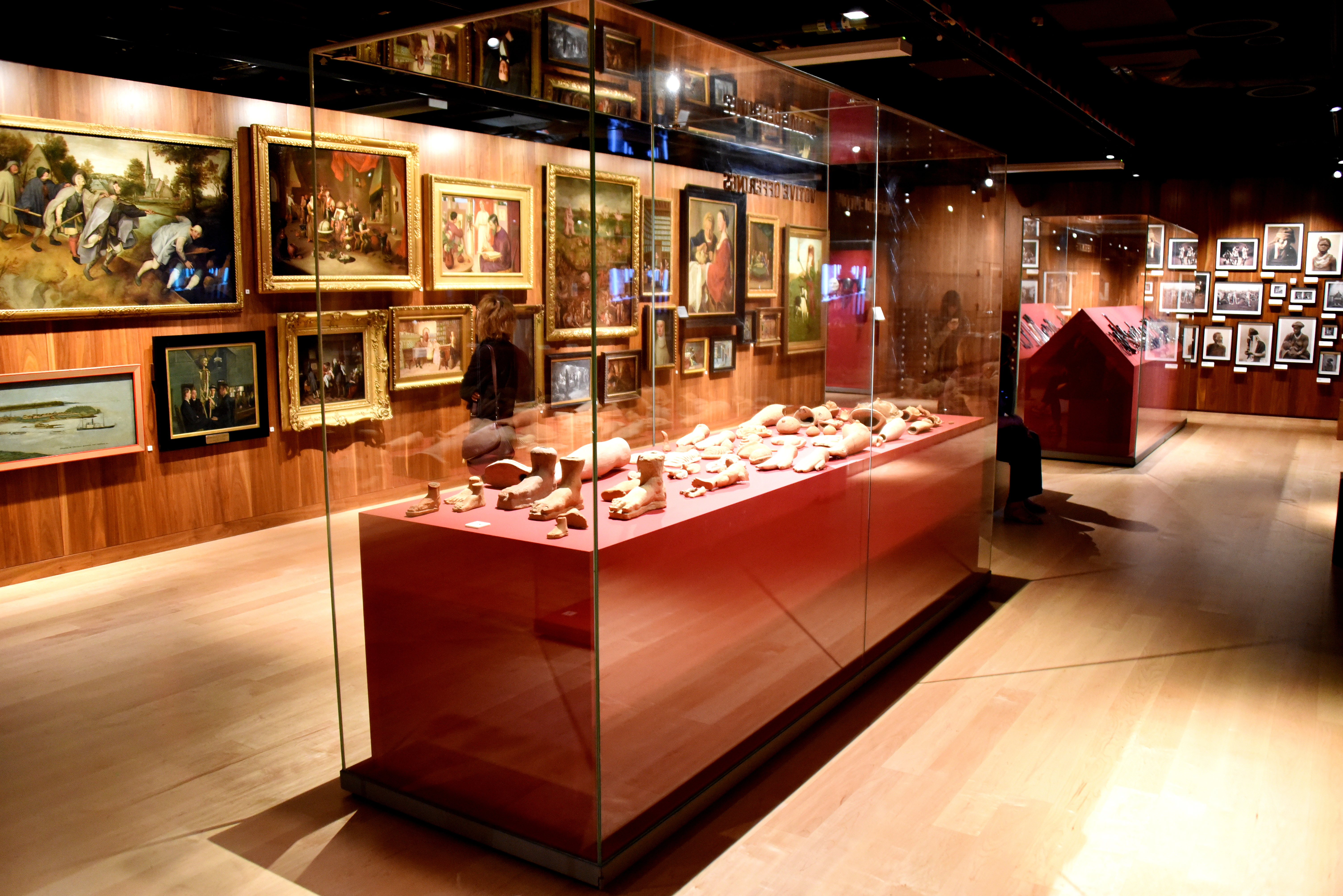 One of the halls of the Wellcome Collection, London.